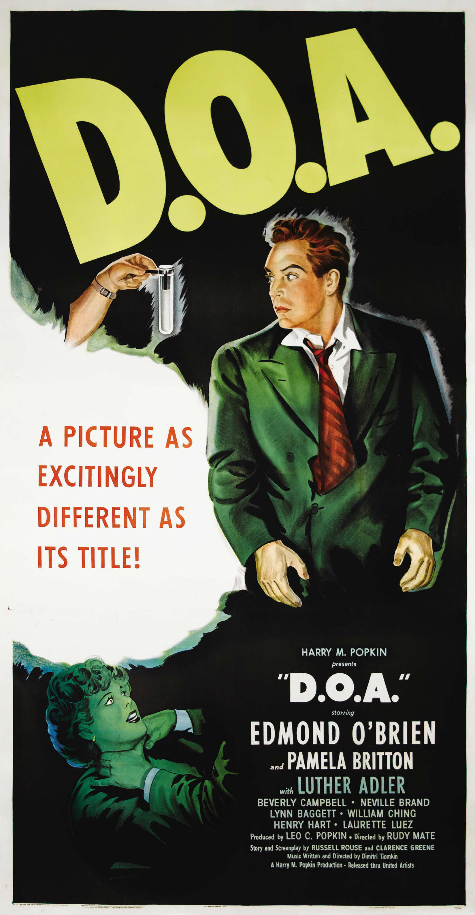 Theatrical release poster for the 1949 film D.O.A. (three-sheet size).